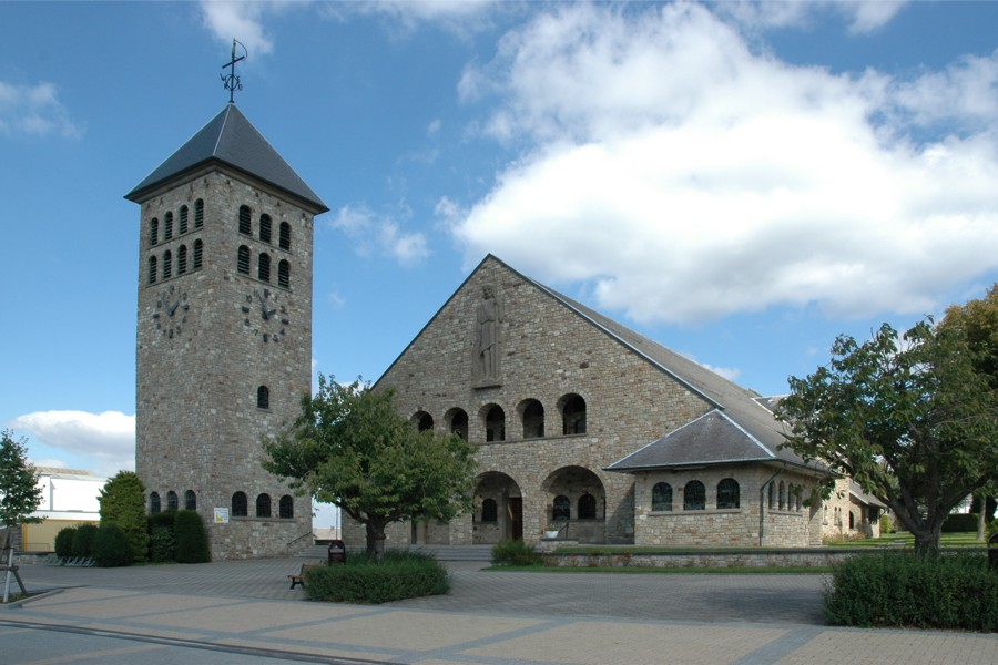 The church “St. John the Baptist” in Rocherath-Krinkelt, a village of Büllingen, Belgium. It was built in 1953/54 in the style of Romanesque Revival to replace its predecessor, which was destroyed in World War II.